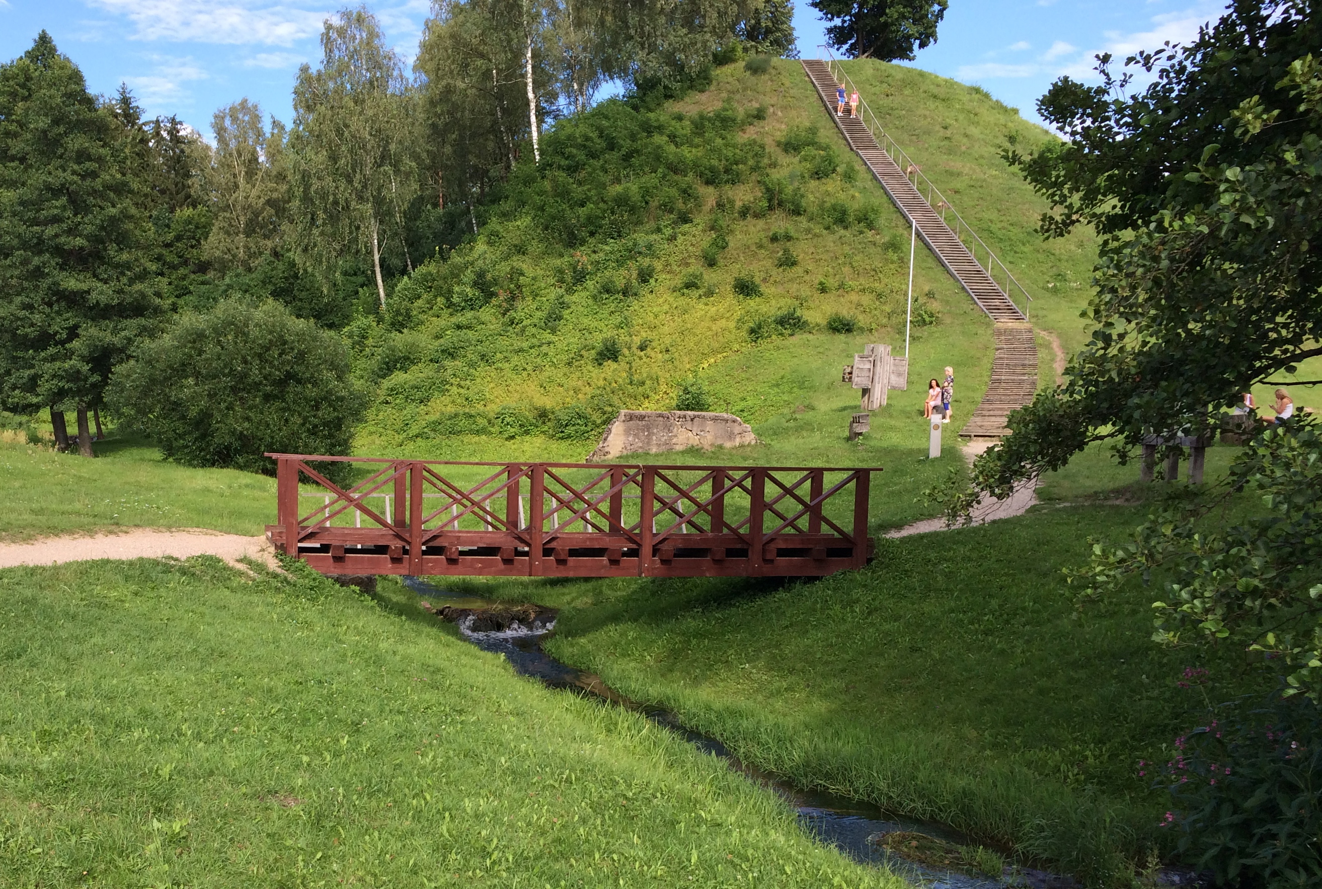 Merkine castle hill